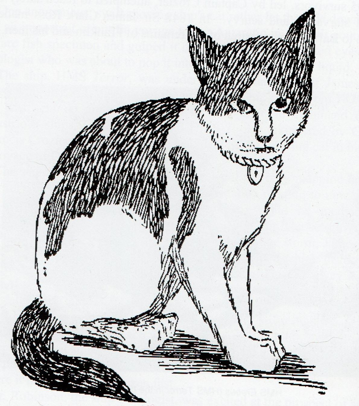 Nansen, ship's cat on Belgica, Belgian Antarctic Expedition.